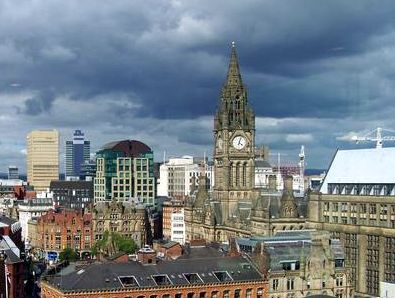 Skyline of Manchester